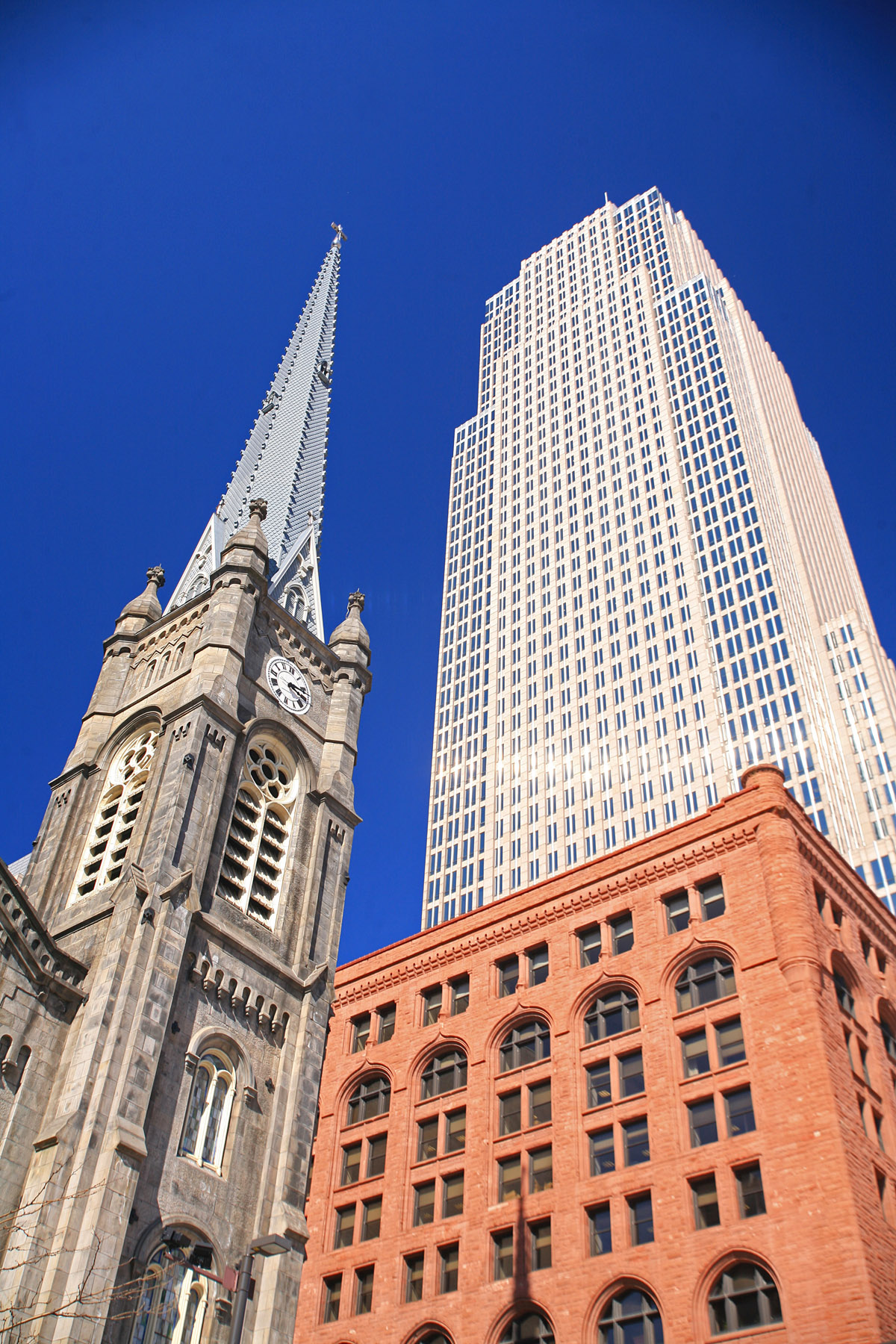 Public Square landmarks in downtown Cleveland, Ohio.